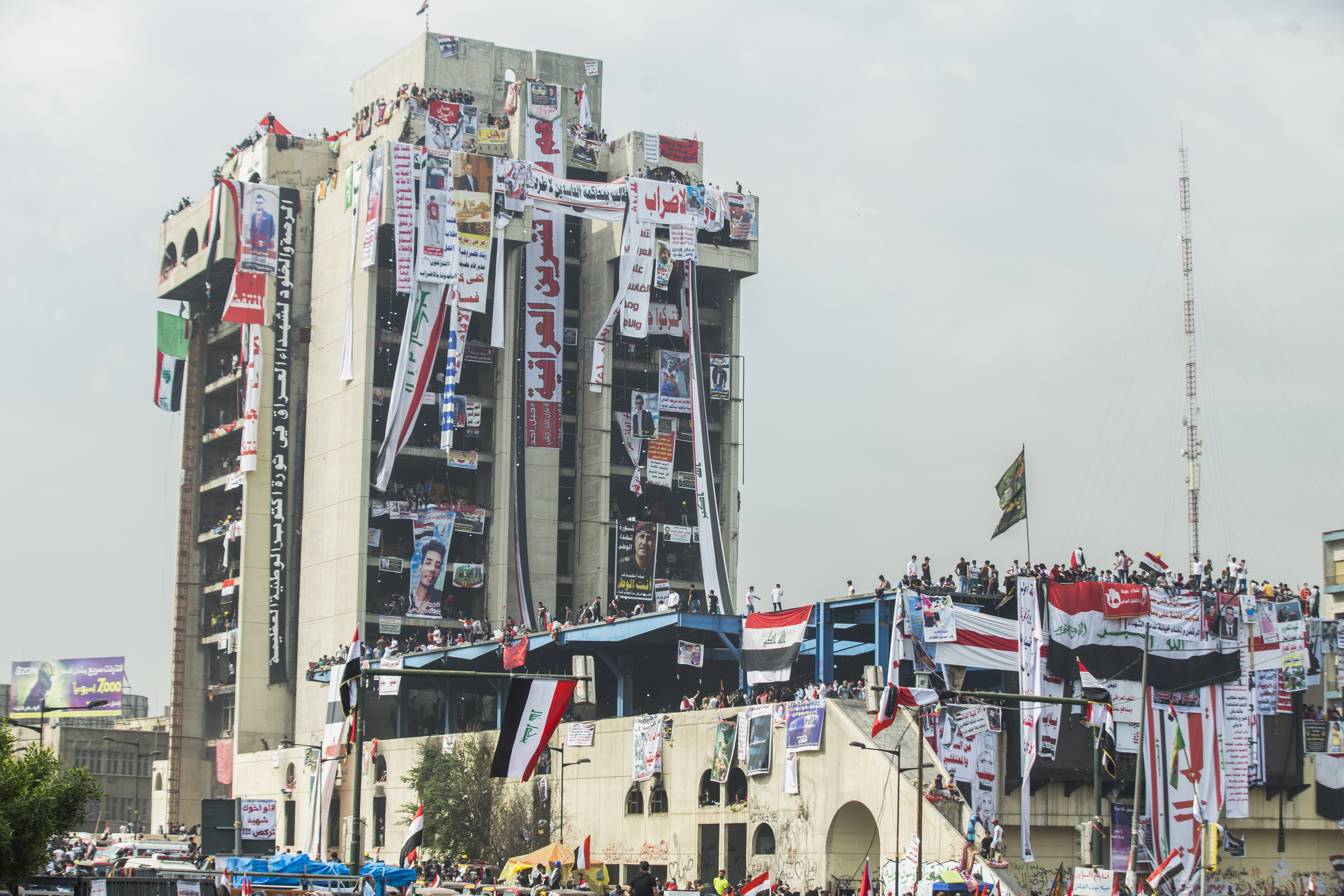 The Turkish restaurant "Mount Uhud" is one of the symbols of the Iraqi October Revolution